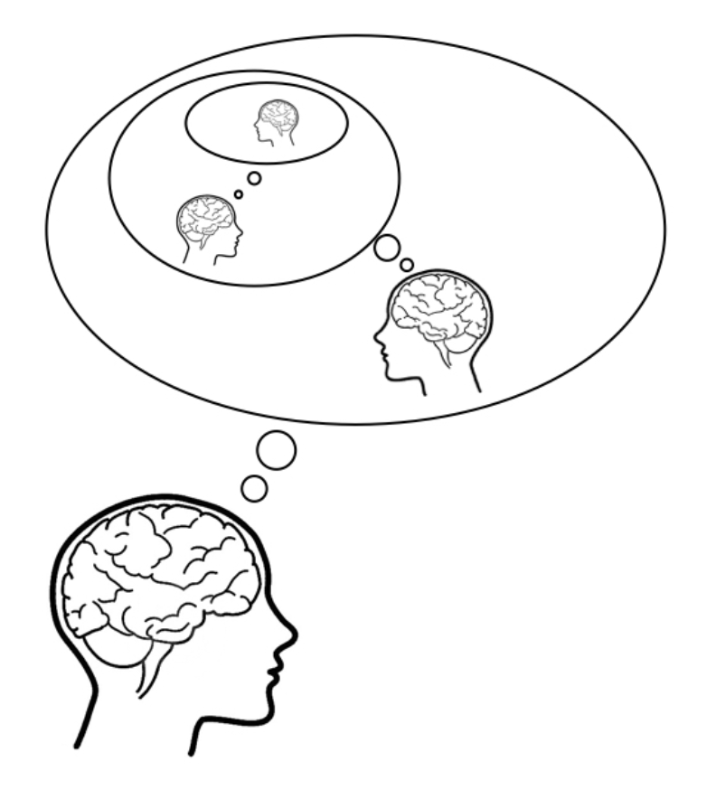 Social decision making